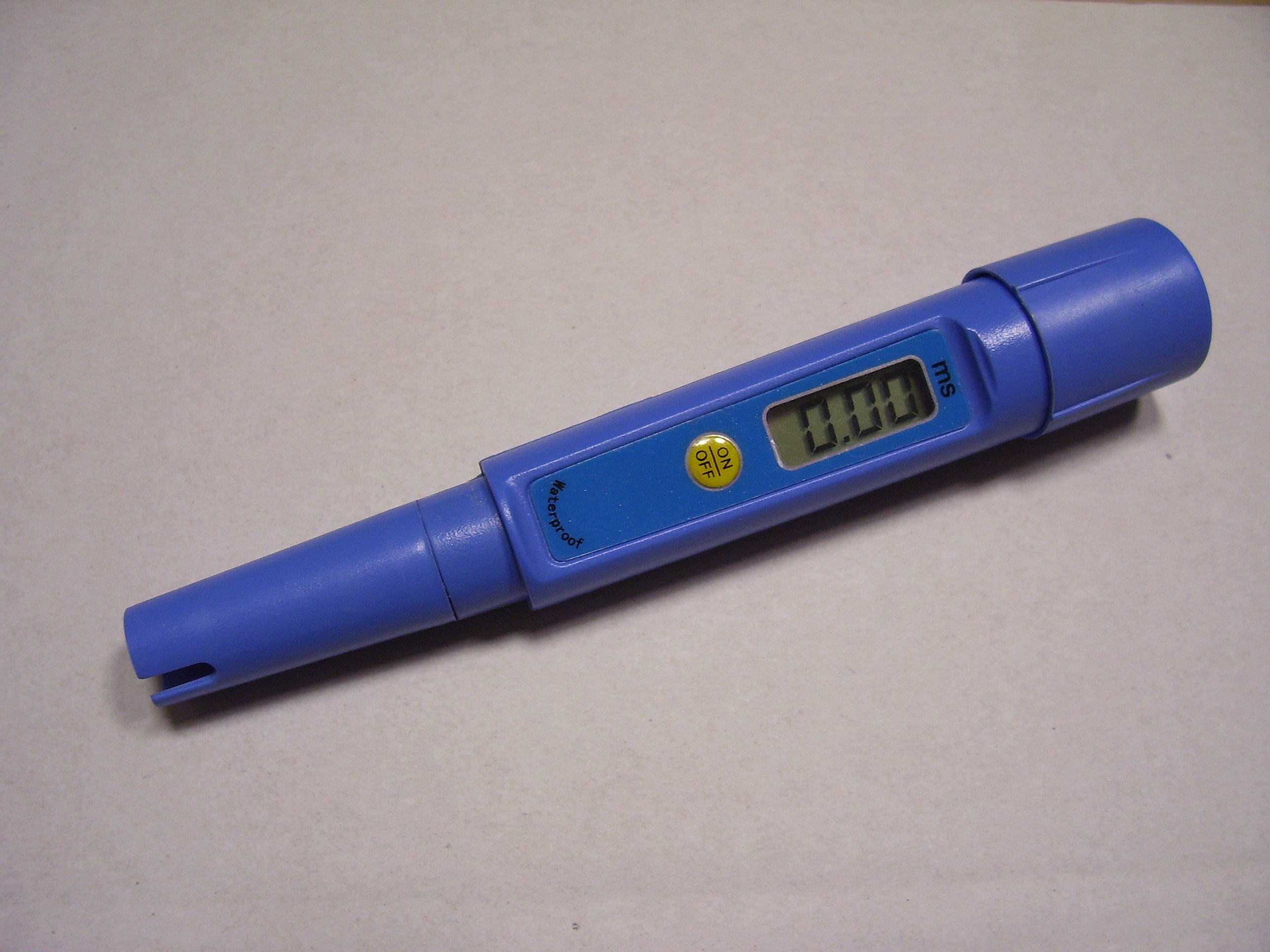 View of an electical conductivity meter